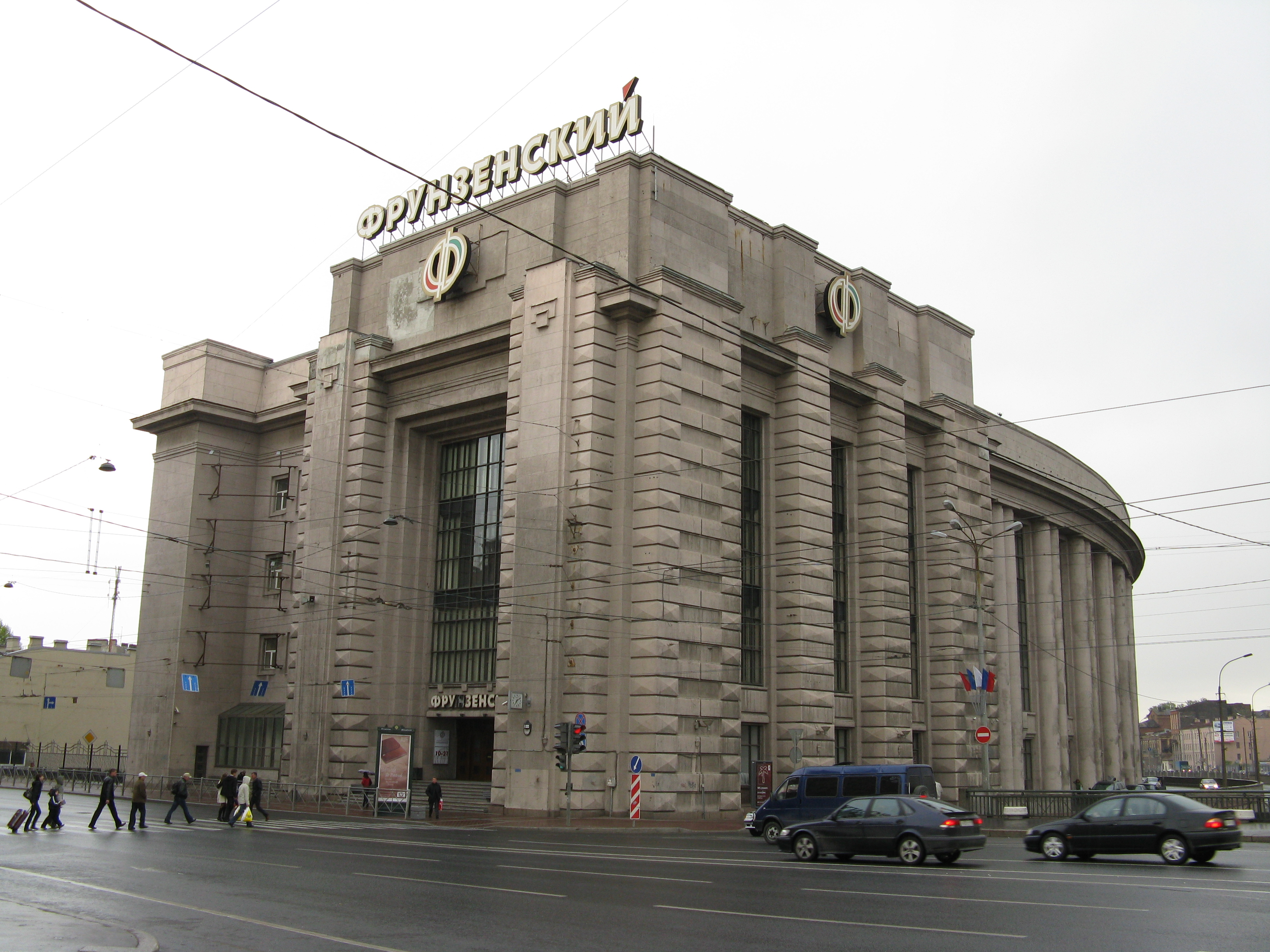 Frunzеnsky moll